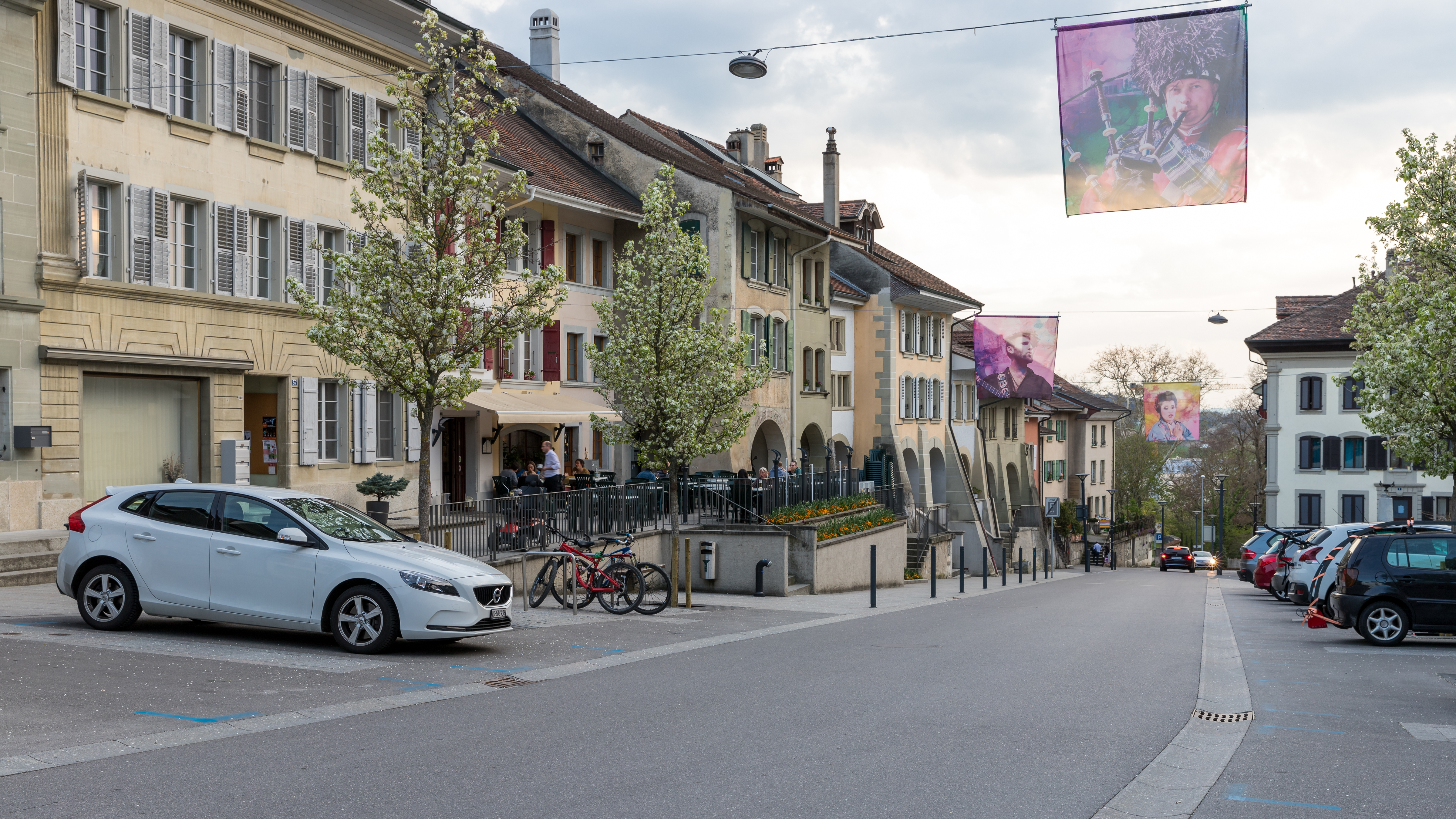 Rue Centrale in the old town of Avenches, canton of Vaud, Switzerland.